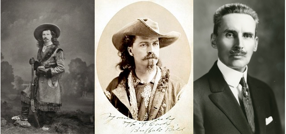 Three Greatest American Scouts, Left to right: Captain Jack Crawford, Col. "Buffalo Bill" Cody and Col. Robert E. Strahorn. A composite image.